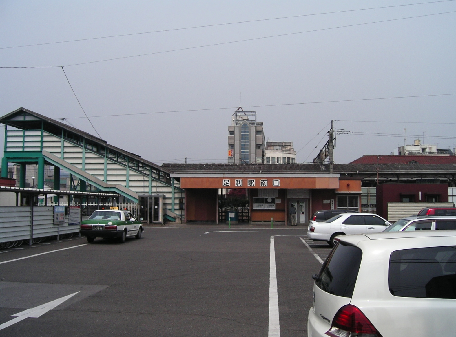 The south entrance to Ashikaga Station on the Ryomo Line in Tochigi Prefecture, Japan